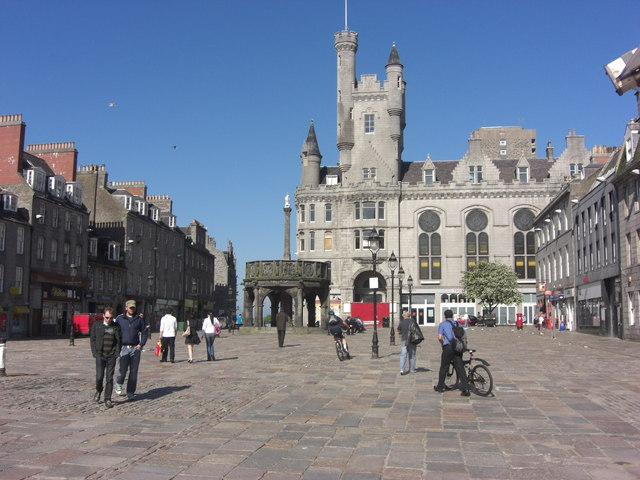 Castlegate, Aberdeen In the centre of the picture is the Mercat Cross.